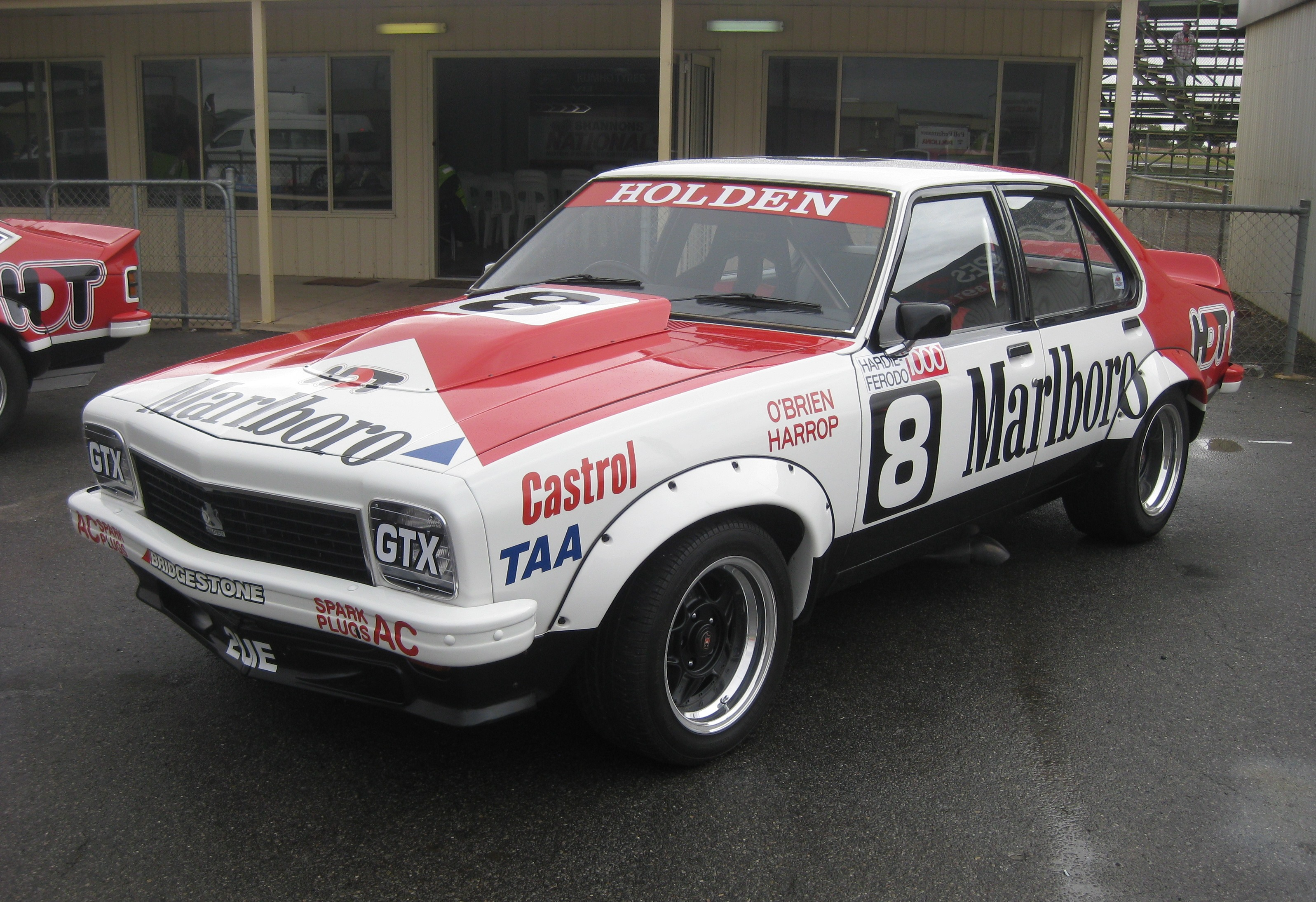 Holden LX Torana SL/R 5000 A9X, pictured at Mallala Motor Sport Park on 21 April 2013. It is in the livery of the No 8 Marlboro Holden Dealer Team entered Torana which placed fifth in the 1977 Hardie Ferodo 1000 at Mount Panorama, Bathurst, driven by Charlie O’Brien and Ron Harrop. It is not known by the author if it is the actual car or a “race replica”.